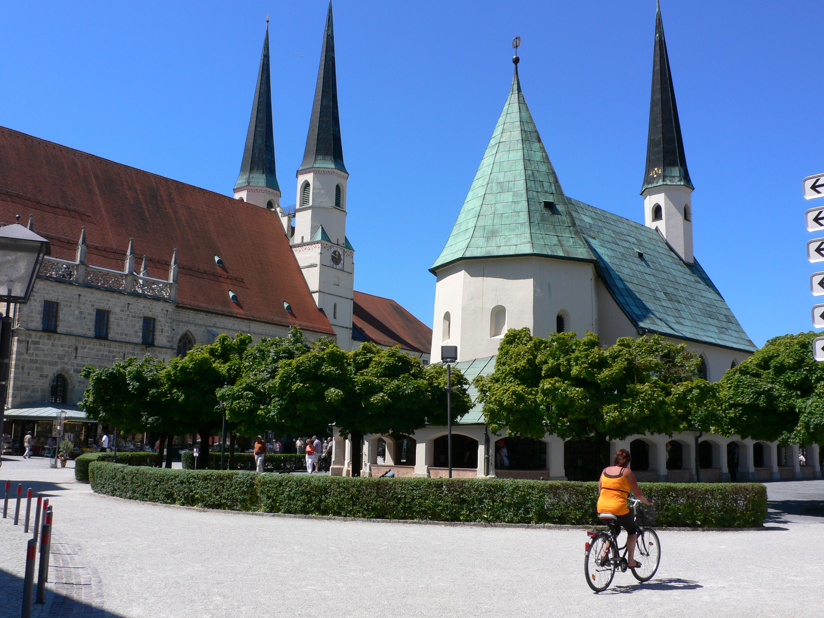 This photo links to my blog article This photo is licenced under Creative commons for use including commercial on condition that you link back to or credit See my profile for more detail.